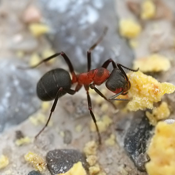 Description: Makroshot of a Formica rufa (Worker) collecting food